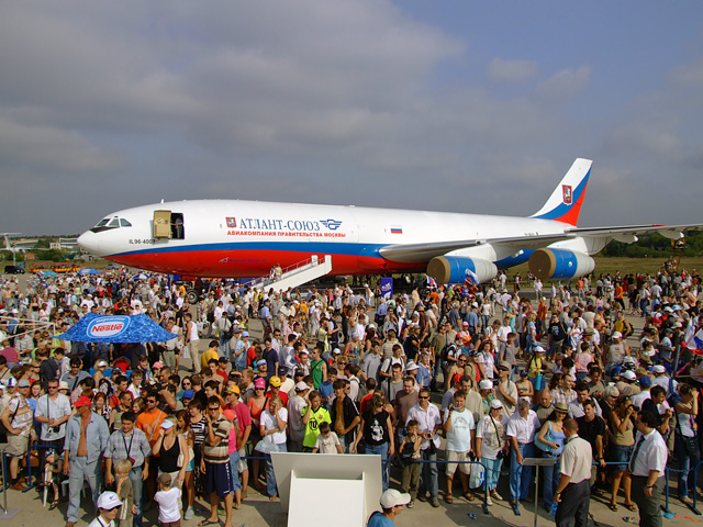 MAKS Airshow-2007. IL-96-400T. Tail number RA-96102